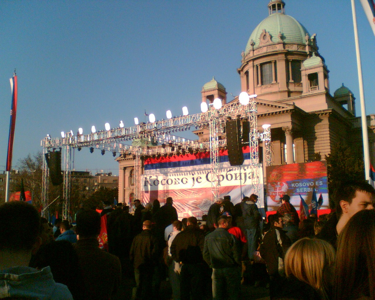 Demonstrators gathering before the government-organised protest meeting outside the old federal parliament building in Belgrade. This photo was taken on my Nokia phone.